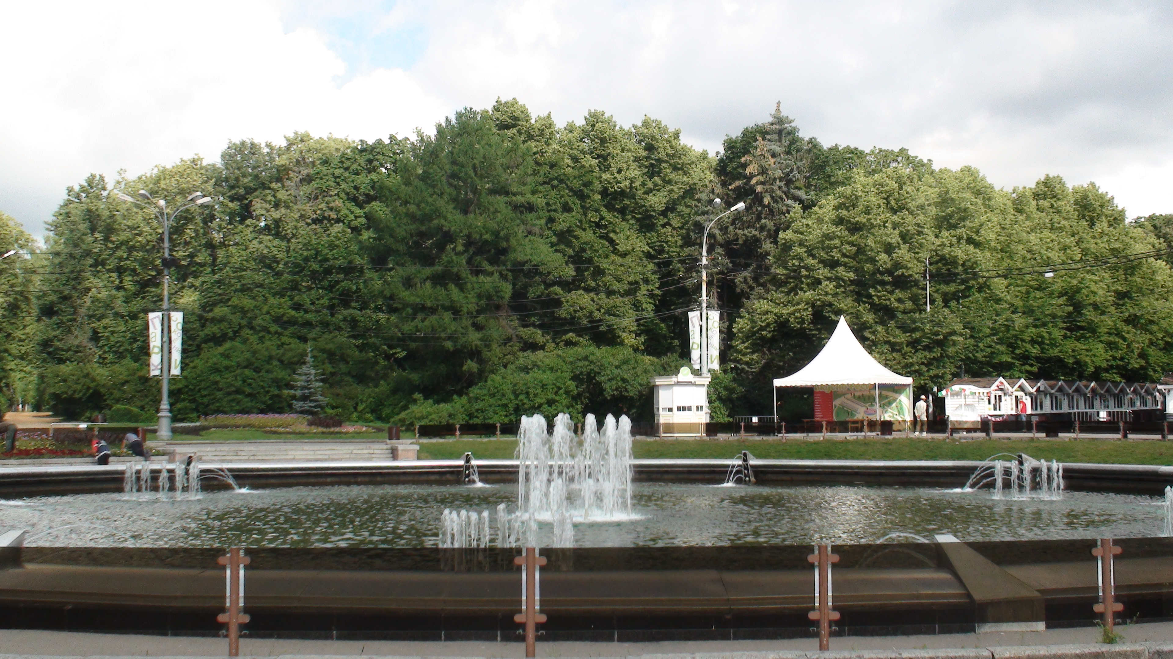 Район города Москвы Сокольники